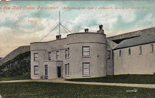 Postcard photograph of Low Rock Castle, Portstewart